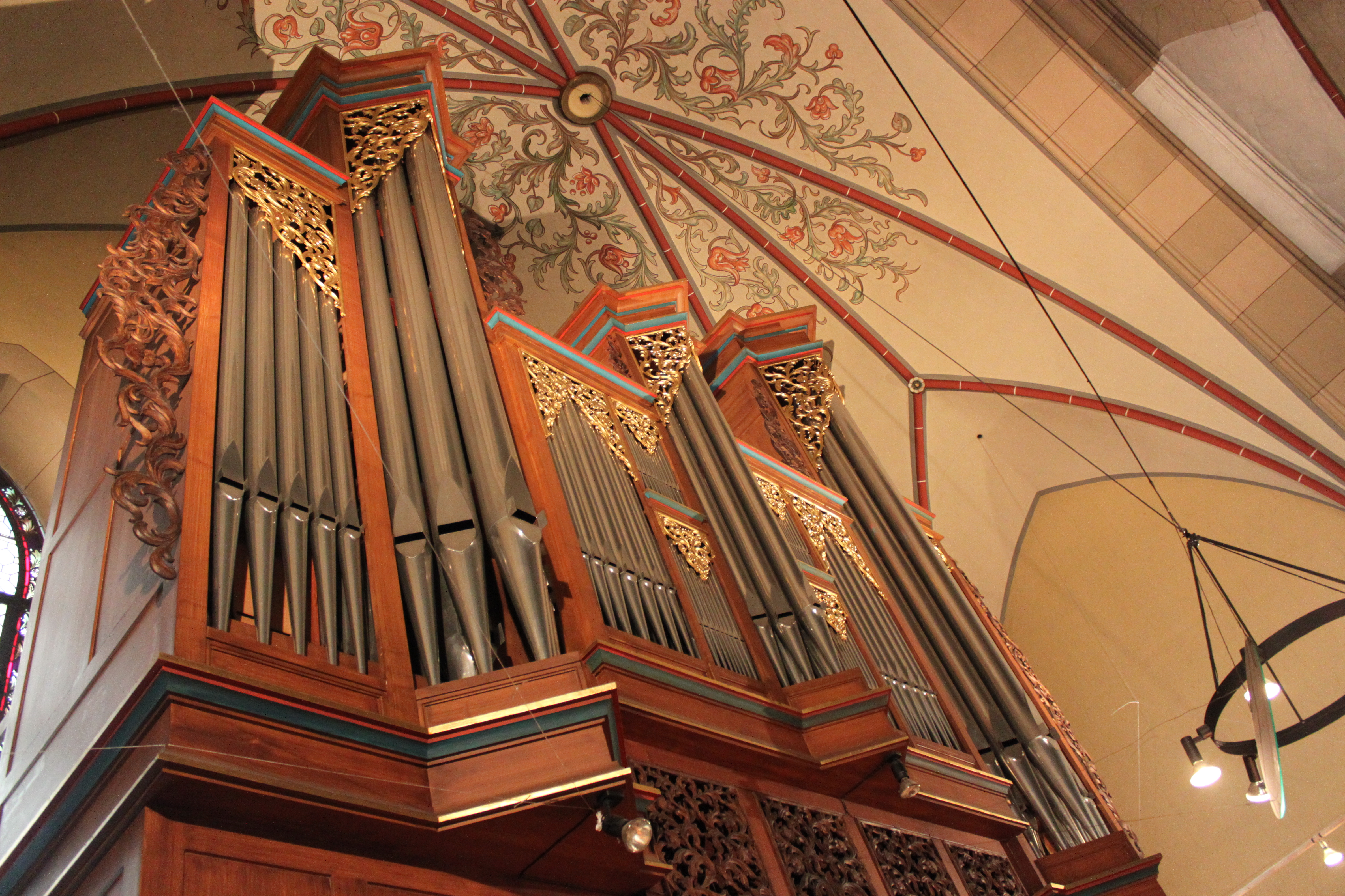 Rieger organ of Neuottakring parish church, Vienna